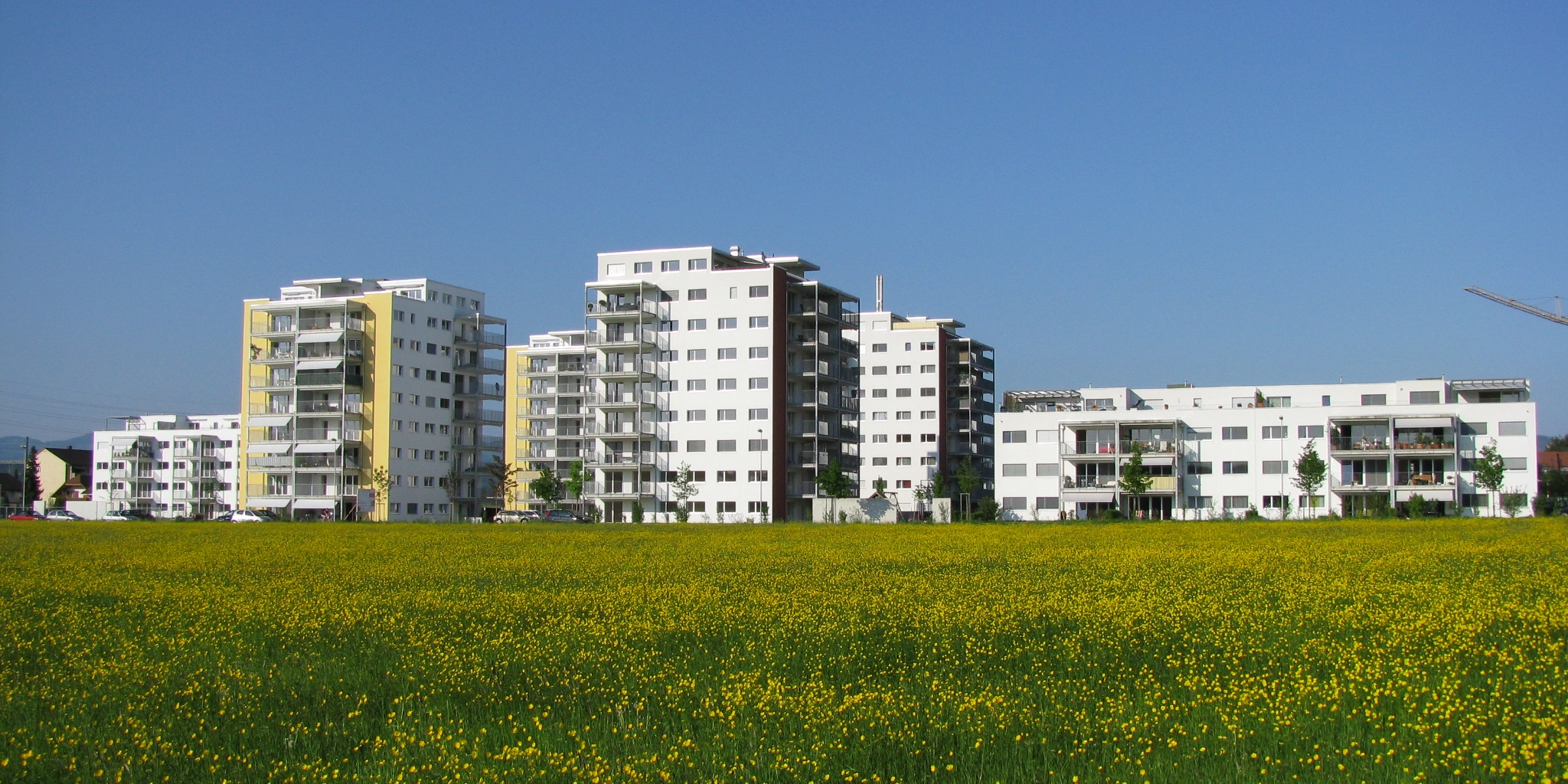 The new building development area "Breiti" in the west of Möhlin